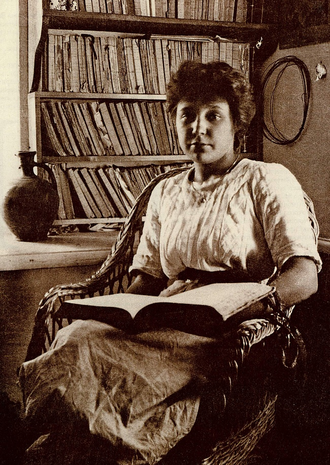 Marina Tsvetaeva photo by Max Voloshin, Koktebel. 1911 Марина Цветаева. Коктебель. 1911 г. (Фото М. Волошина)